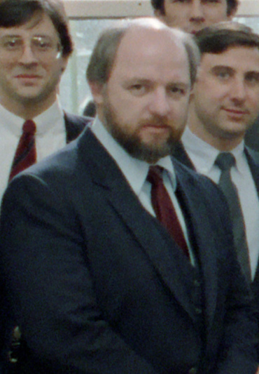 President Ronald Reagan Farewell Photo Opportunity with Lyn Nofziger Departing Assistant for Political Affairs and Members of His Staff Including Lee Atwater and Ed Rollins in Oval Office, 1/22/1982